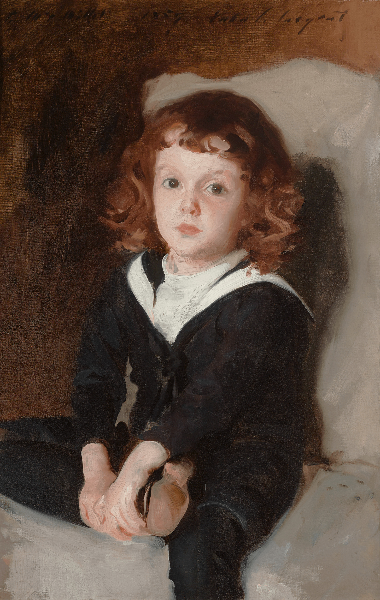 Portrait of Laurence Millet by John Singer Sargent. Signed, dated and inscribed “To Mrs. Millet 1887 John S. Sargent”